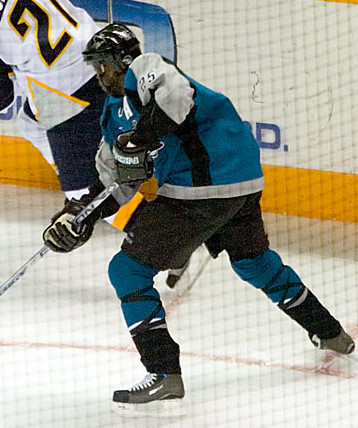 Nashville Predators at San Jose Sharks 2/28/2007